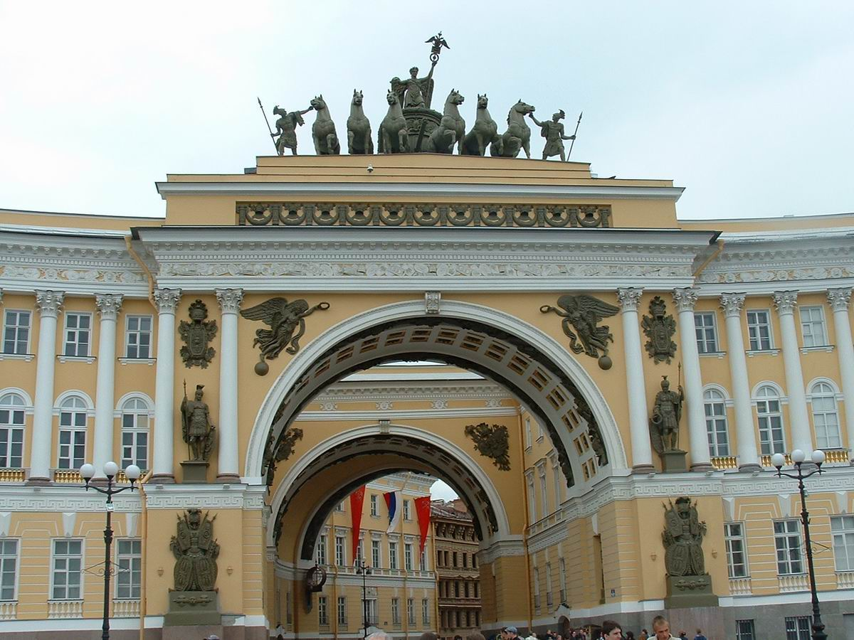 Palace Square in St. Petersburg.